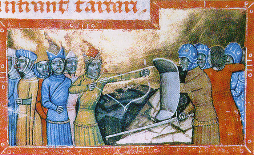 The Mongols in Hungary 1285. Hungary. Ink and paint on pergament. Height 25.3 cm, width 32.8 cm. Széchényi National Library, Budapest, fol. 64 verso, Inv. no. Clmae 404 (the picture is of a 19th century reproduction). From the Chronicum Pictum in Hungary's National Library. The dismounted Mongols, with captured women, are on the left, the Hungarians, with one saved woman, on the right.